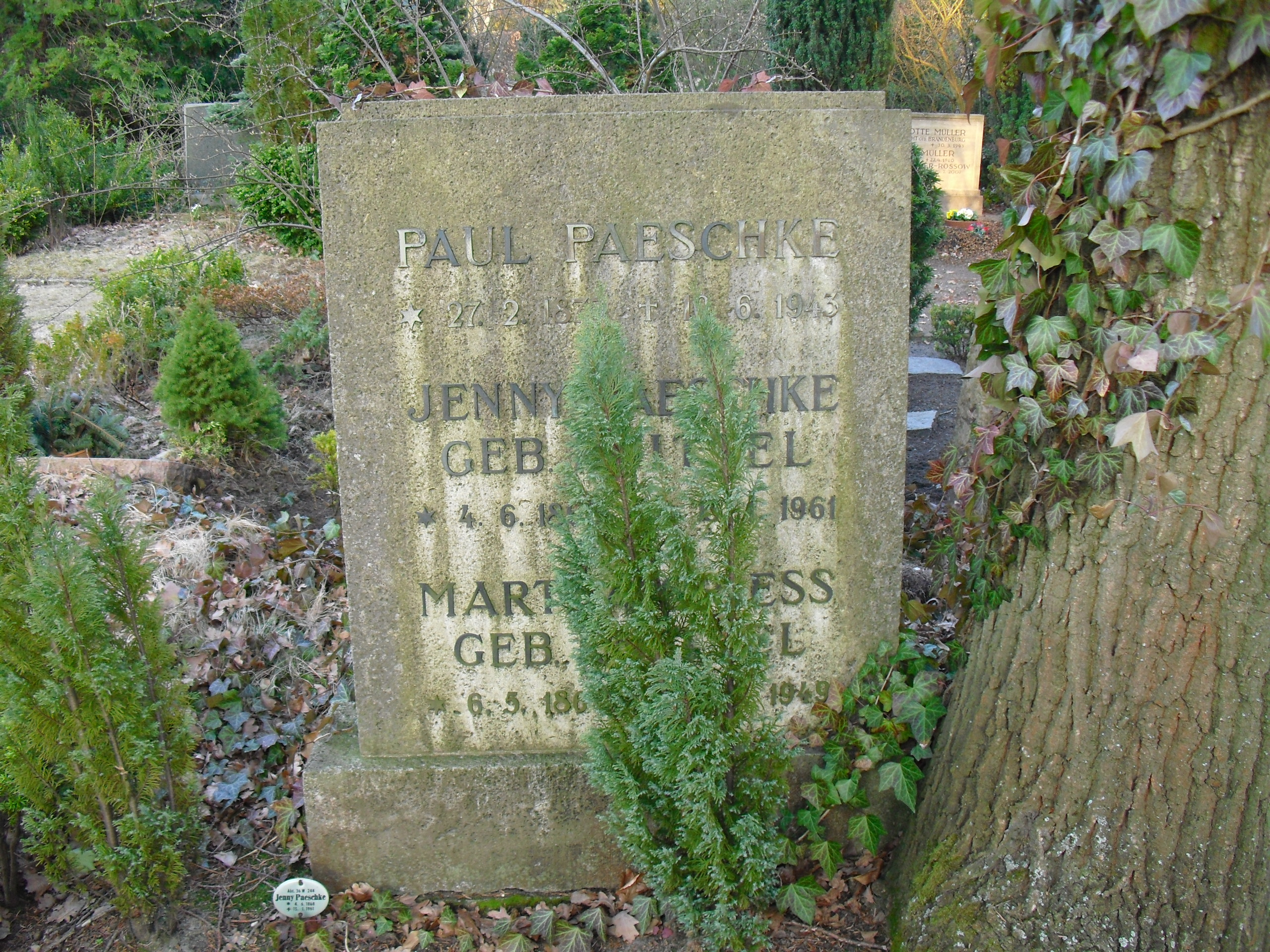 Grave of Paul Paeschke in Friedhof Zehlendorf in Berlin-Zehlendorf